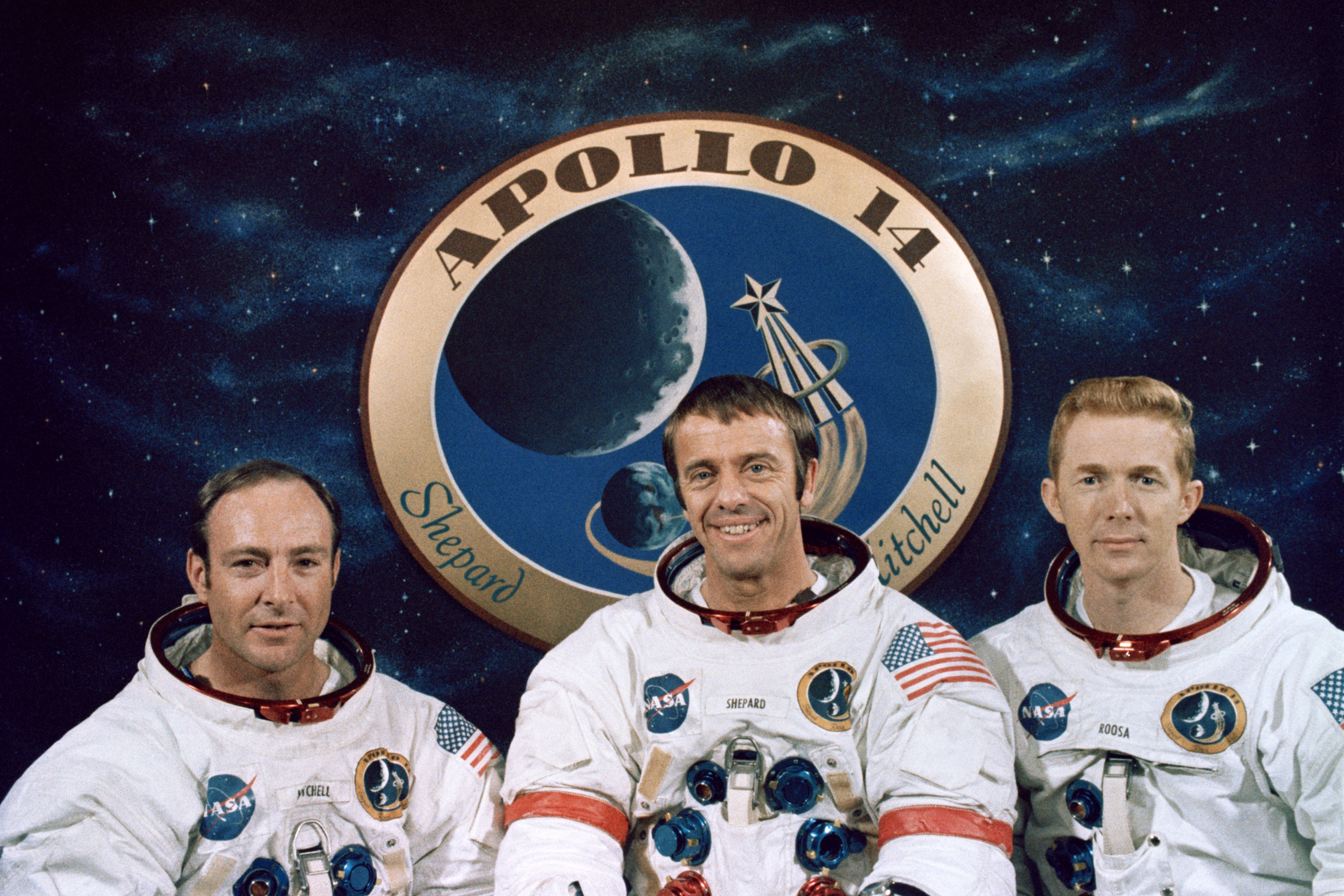 These three astronauts are the prime crew of the Apollo 14 lunar landing mission. Left to right, are Edgar D. Mitchell, lunar module pilot; Alan B. Shepard Jr., commander; and Stuart A. Roosa, command module pilot. The Apollo 14 emblem is in the background.